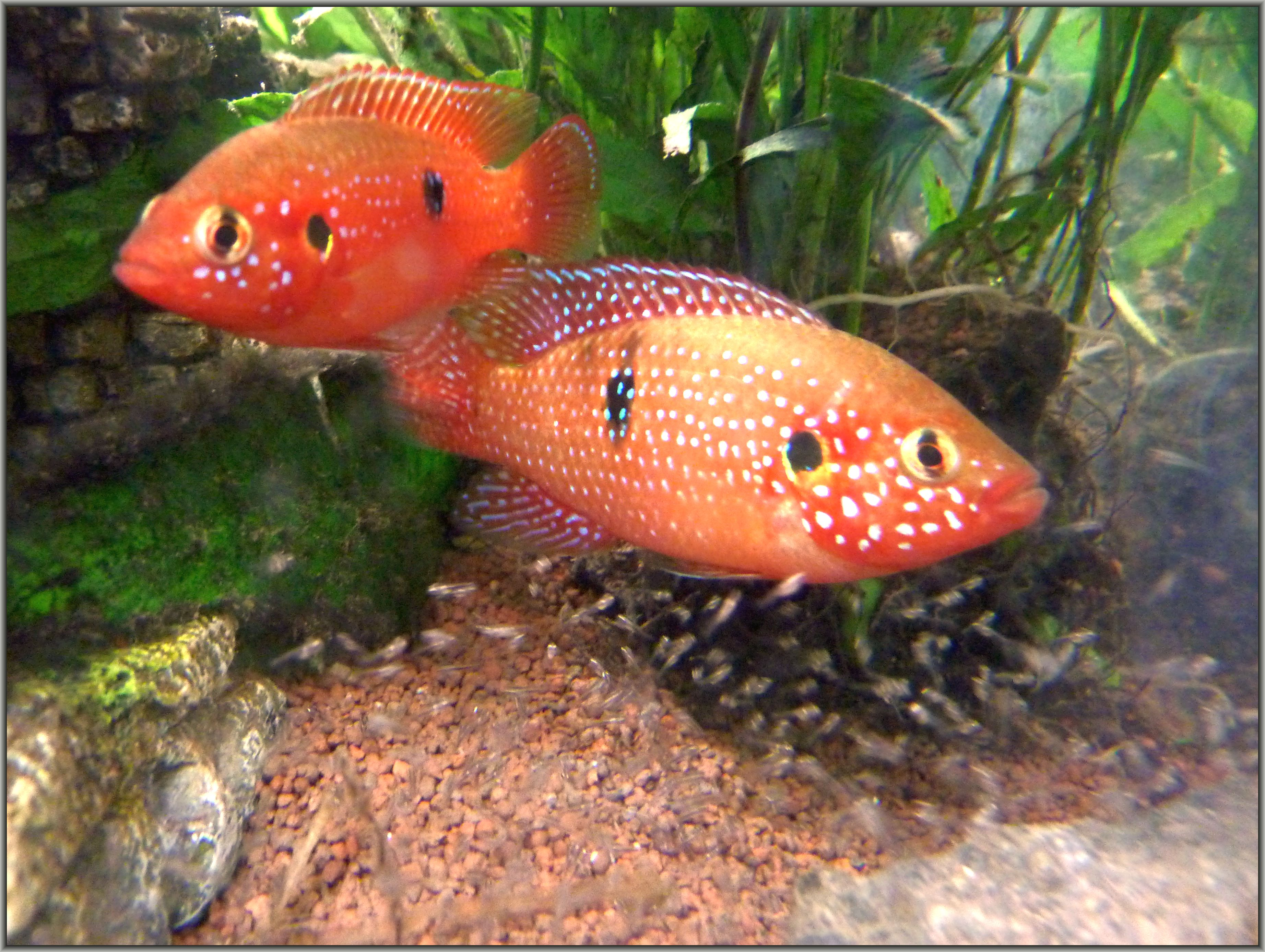 Prachtbuntbarschpärchen mit Jungen